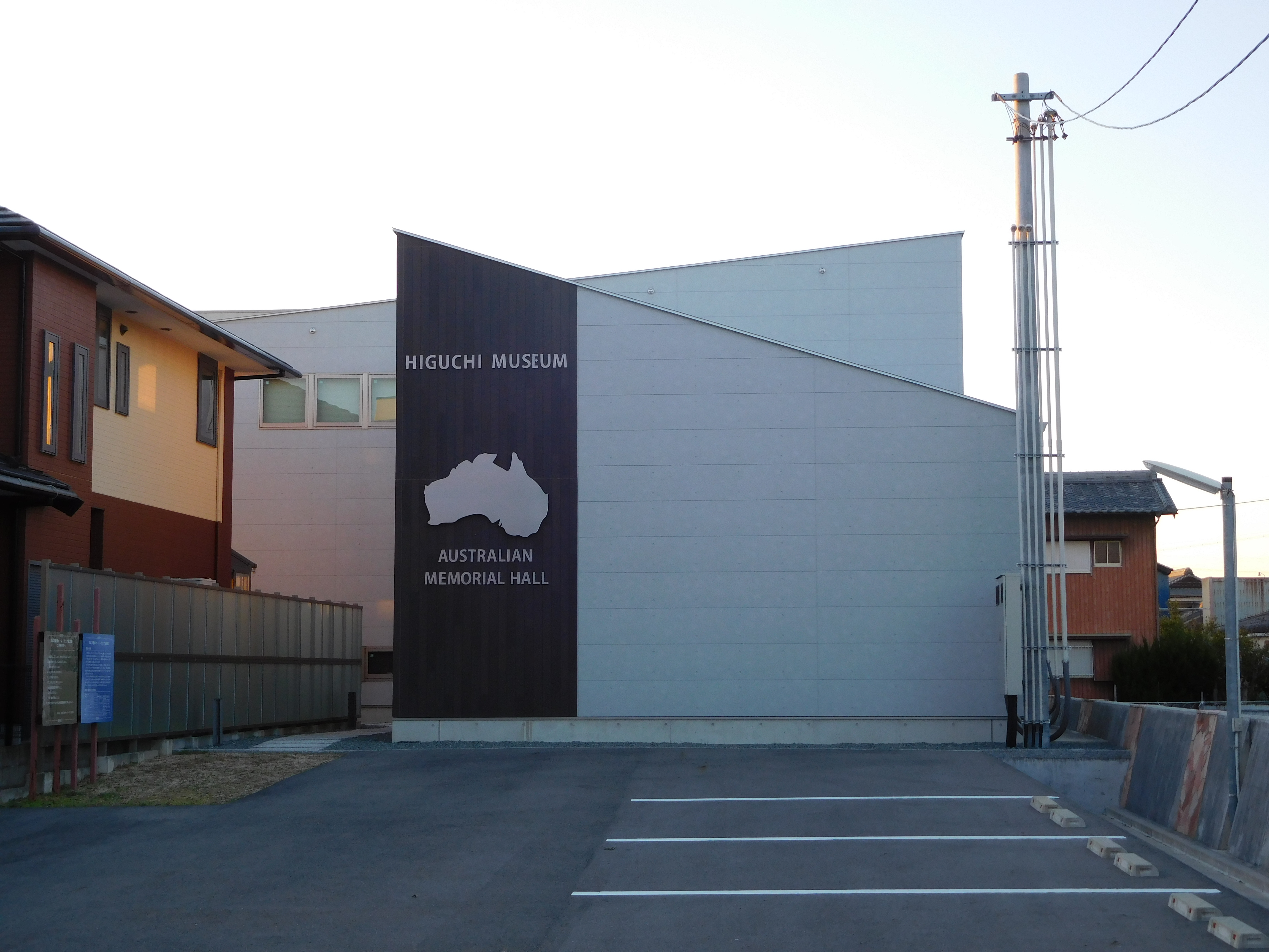 This is Expo 2005 Memorial Higuchi Friendship Museum in Tsu, Mie, Japan.